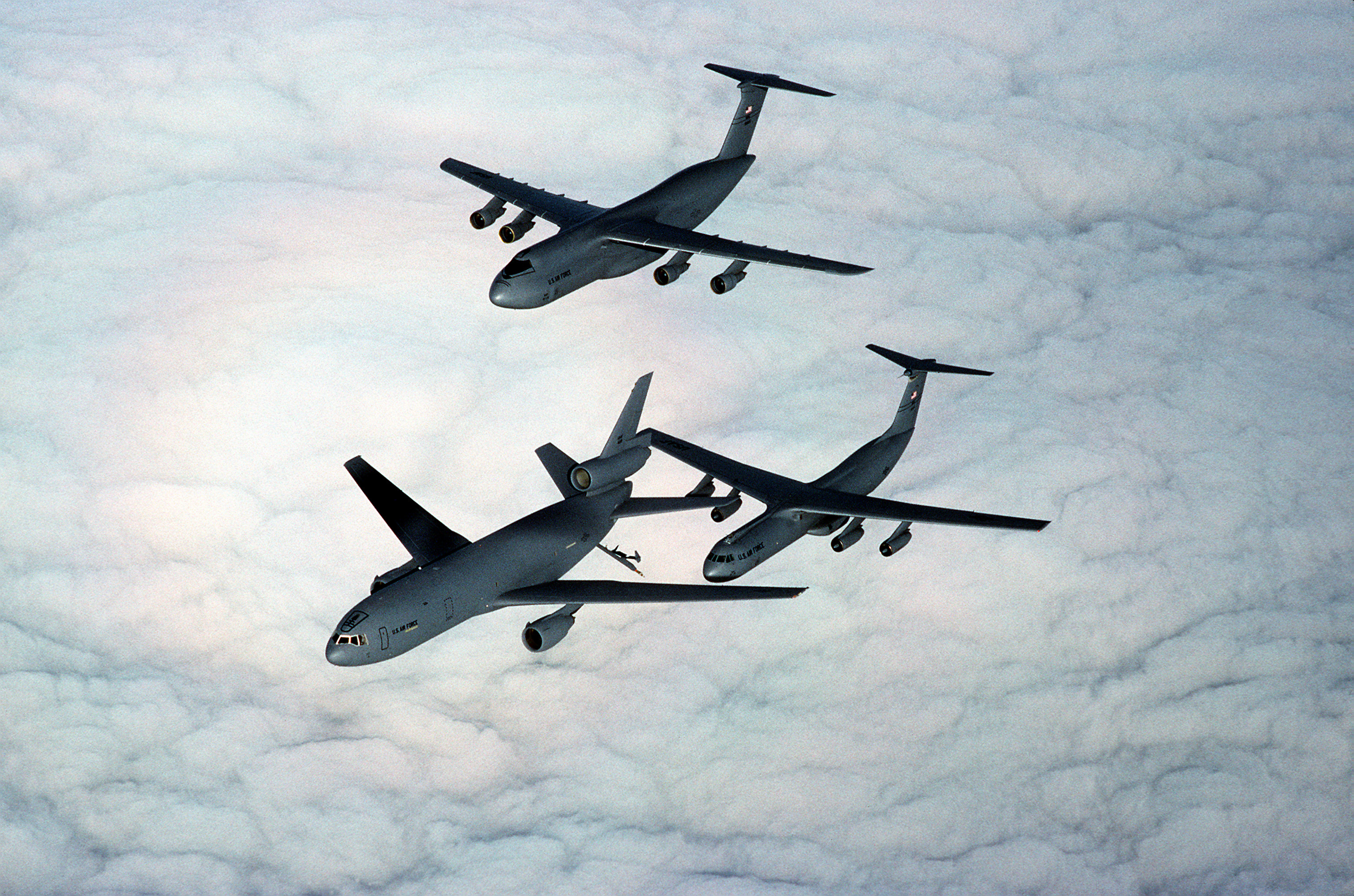 A 79th Air Refueling Squadron (79th AREFS) KC-10A Extender aircraft completes the refueling of a 7th Airlift Squadron (7th AS) C-141B Starlifter aircraft as a 75th Airlift Squadron (75th AS) C-5B Galaxy aircraft lines up for refueling. The planes are flying above the clouds over Northern California. The KC-10 Extender is an air-to-air tanker aircraft in service with the United States Air Force derived from the civilian DC-10-30 airliner. The KC-10 was the second consecutive McDonnell Douglas transport aircraft to be selected by the US Air Force following the C-9 Nightingale. Conversion to the KC-10 involved only minor modifications to the DC-10-30, the largest of which was the addition of a boom control station in the rear of the fuselage and extra fuel tanks under the main deck. First deliveries to the Strategic Air Command (then in control of AAR assets) commenced in 1981. The USAF Strategic Air Command had KC-10 Extenders in service from 1981 through 1991, when they were re-assigned to the Air Mobility Command.